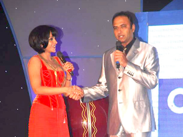 Image of Charu Sharma Indian cricket commentator